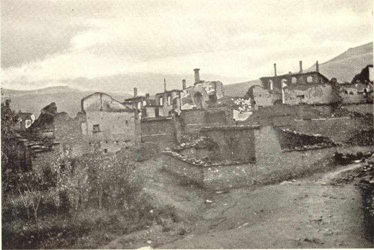 Ruins of burned Vasiliada